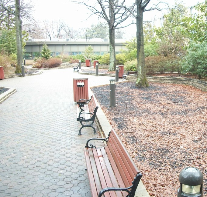 The Cranford campus of Union County College in New Jersey has lovely walkways like this one, with benches and trees.